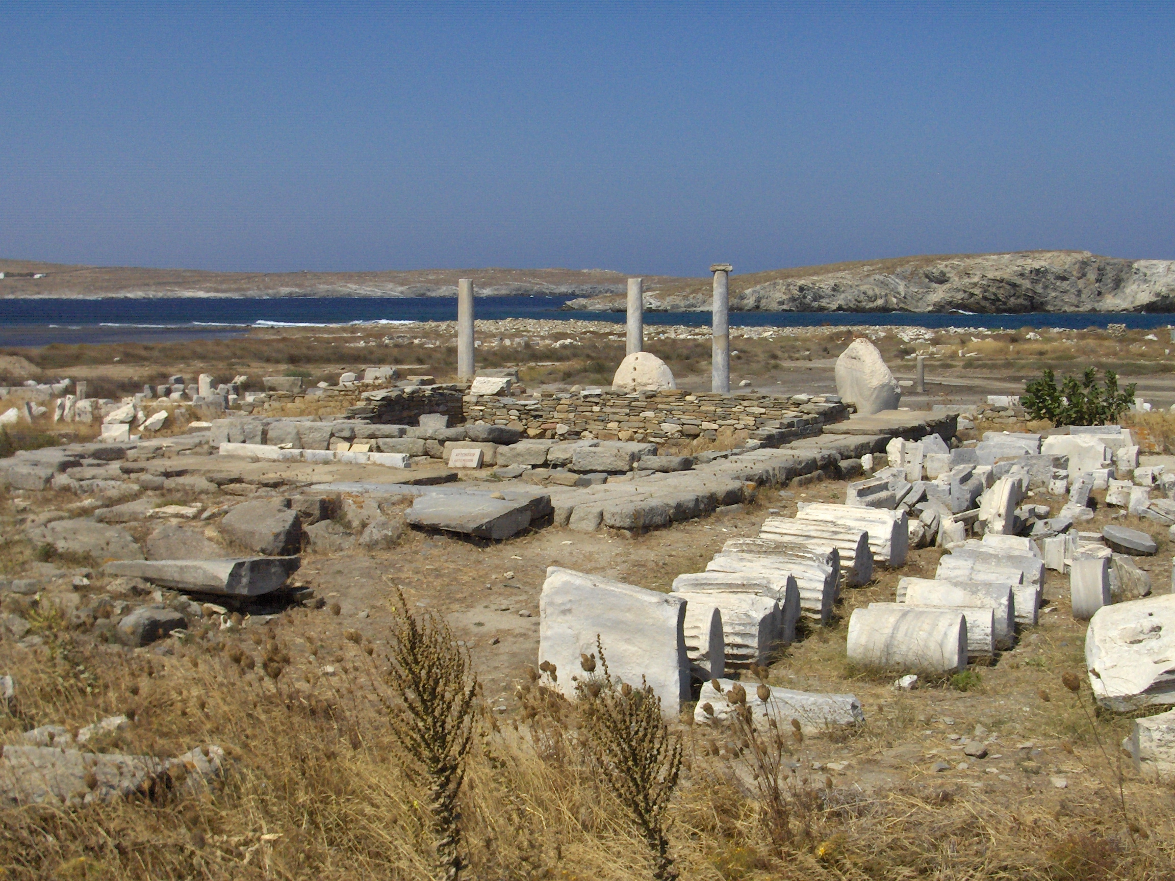 Ruins at the island of Delos.